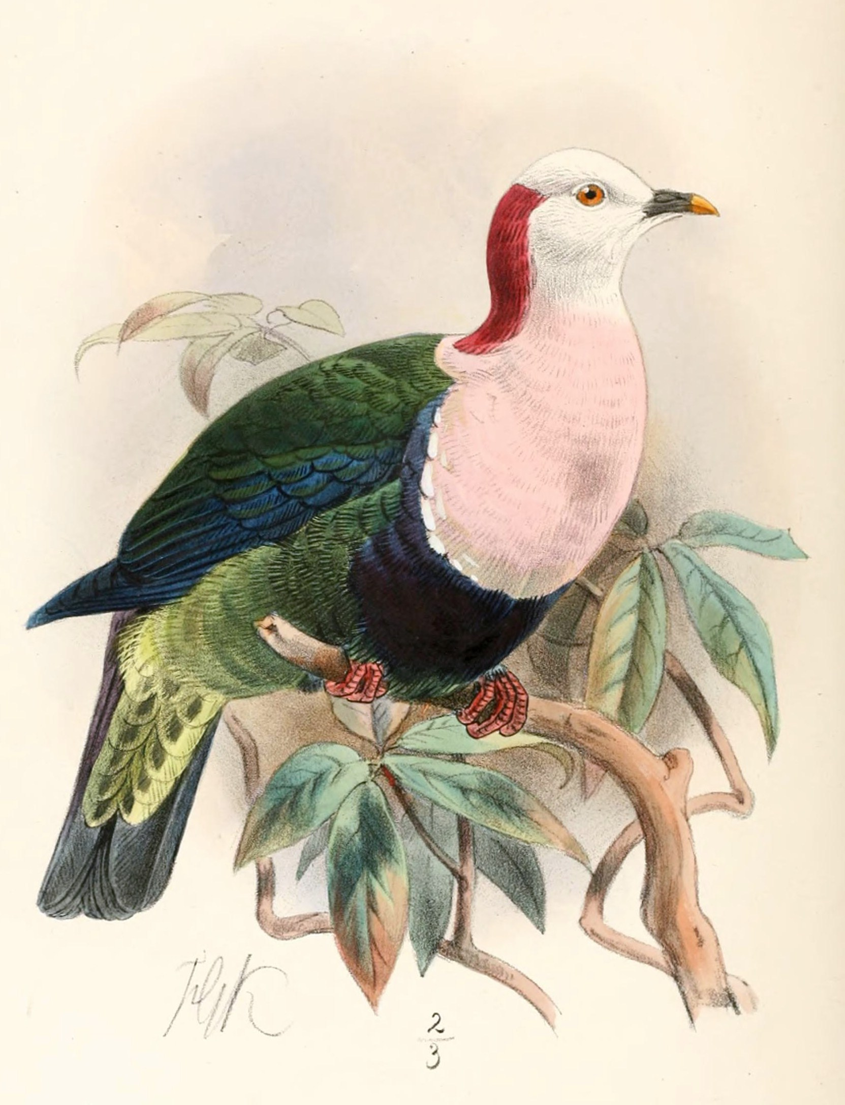 « Ptilopus dohertyi » = Ptilinopus dohertyi (Red-naped Fruit Dove)